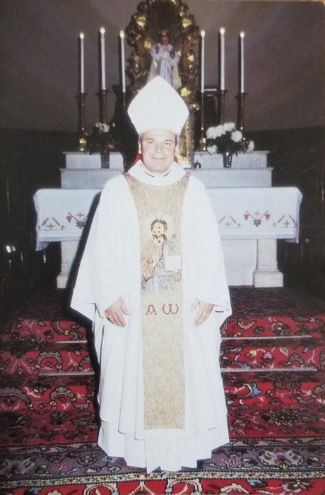 Card to commemorate the 25 years of priesthood of Bishop Georgi Yovchev